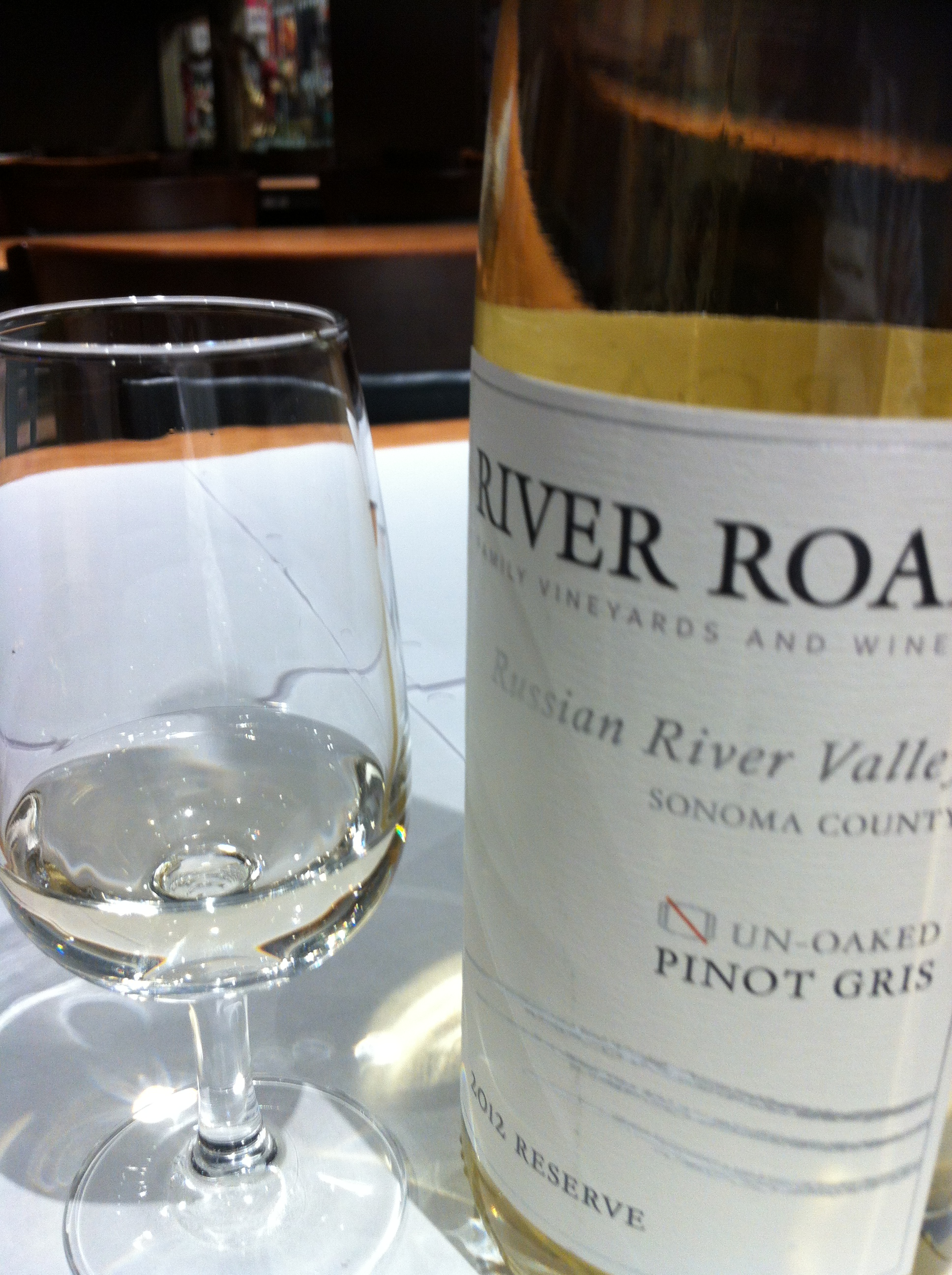 California unoaked Pinot gris wine from the Russian River wine region of Sonoma